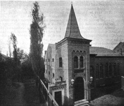 Fredskapellet (The Peace Chapel), demolished Baptist church in Frederiksberg